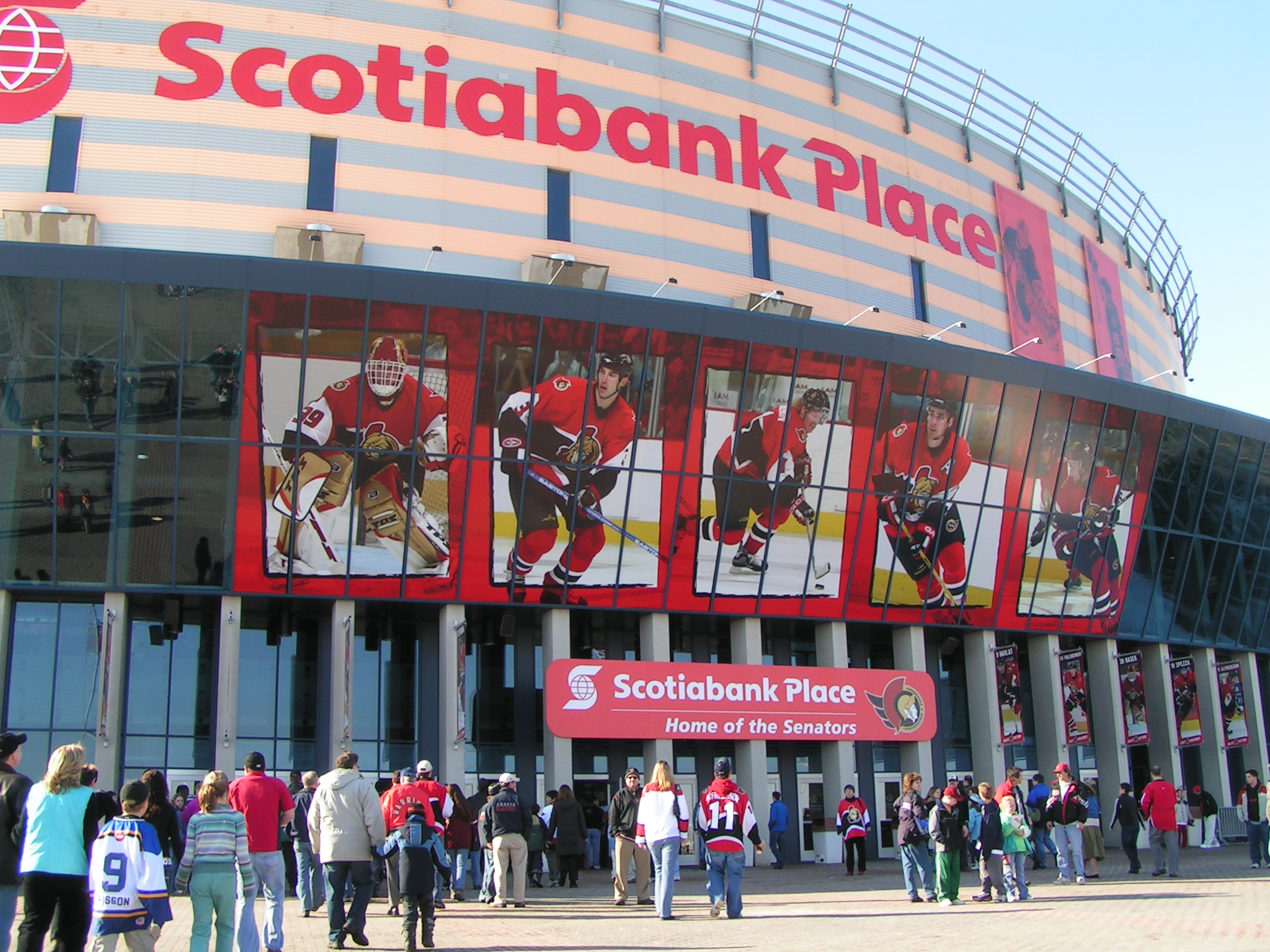 Scotia Bank Place, the hockey arena of the Ottawa Senators picture taken by Janothird, January 28, 2006